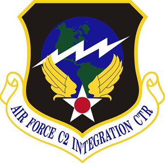 Air Force Command and Control Integration Center Logo